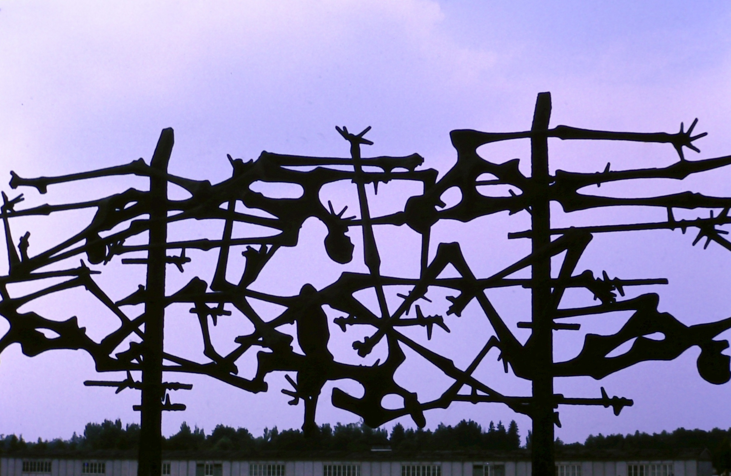 International Monument at Dachau Memorial Site created by Nandor Glid. It was dedicated in September 1968.